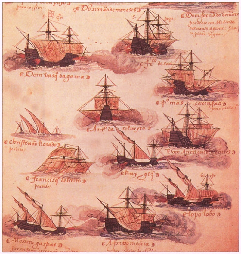 Portuguese_ships_16th_century_Livro_das_Armadas.